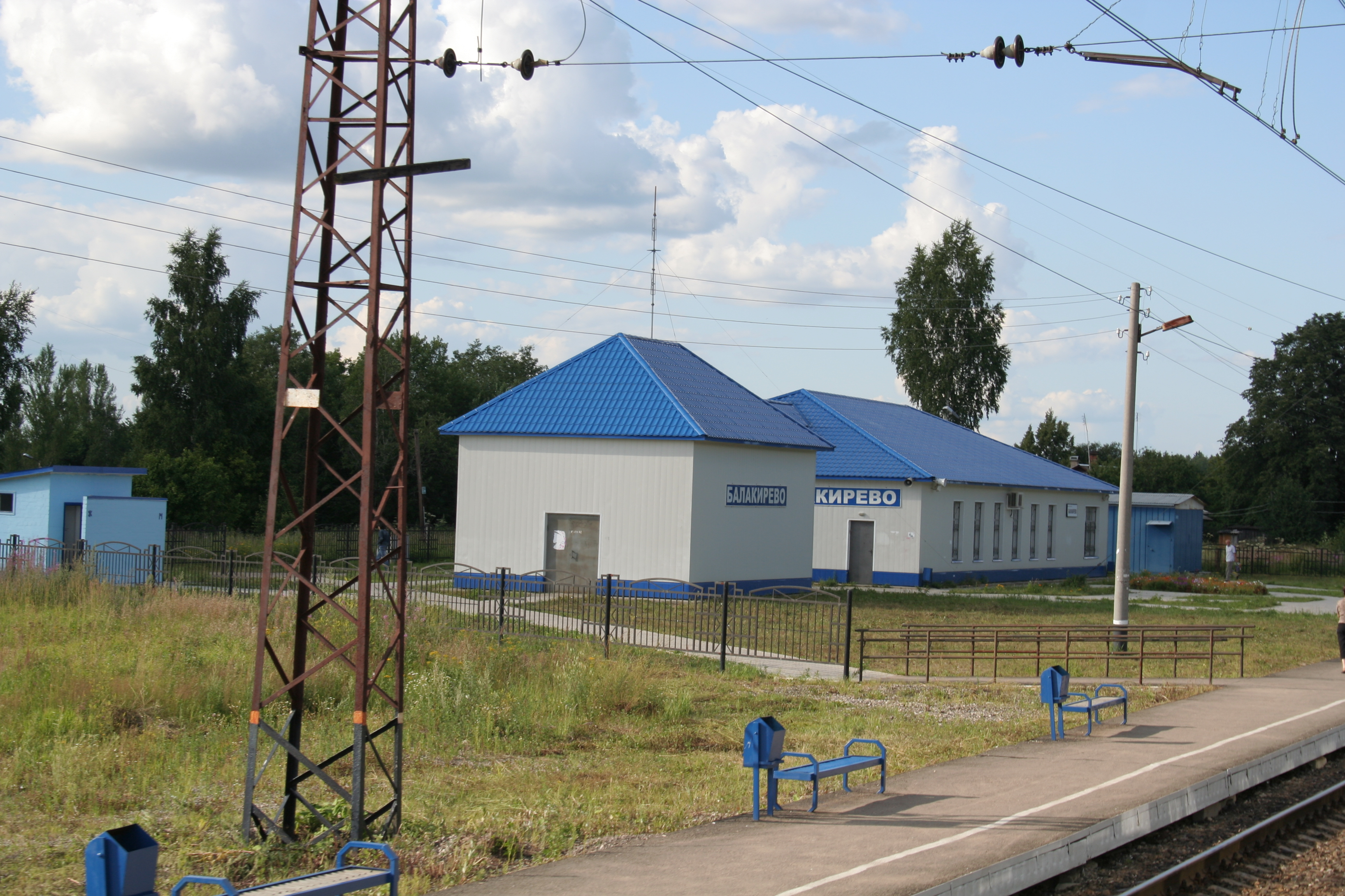 Train station in Balakirevo, Vladimir Oblast, Russia